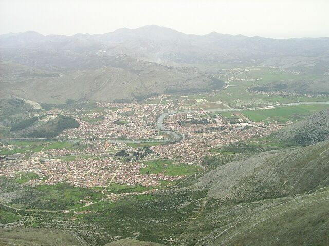 Trebinje, Bosnia and Herzegovina seen from the Leotar hill